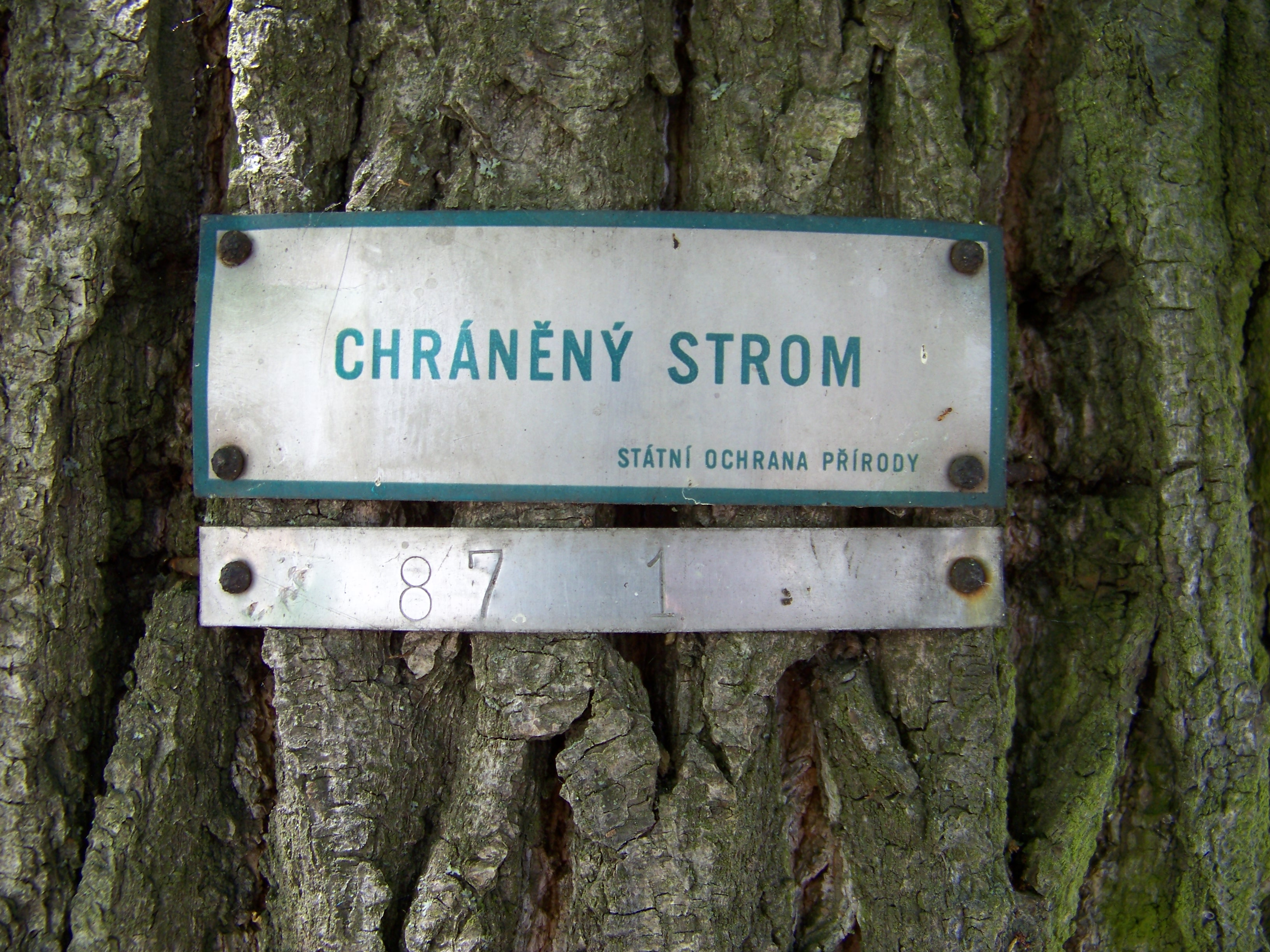 Prague-Přední Kopanina, the Czech Republic. Protected tree sign.